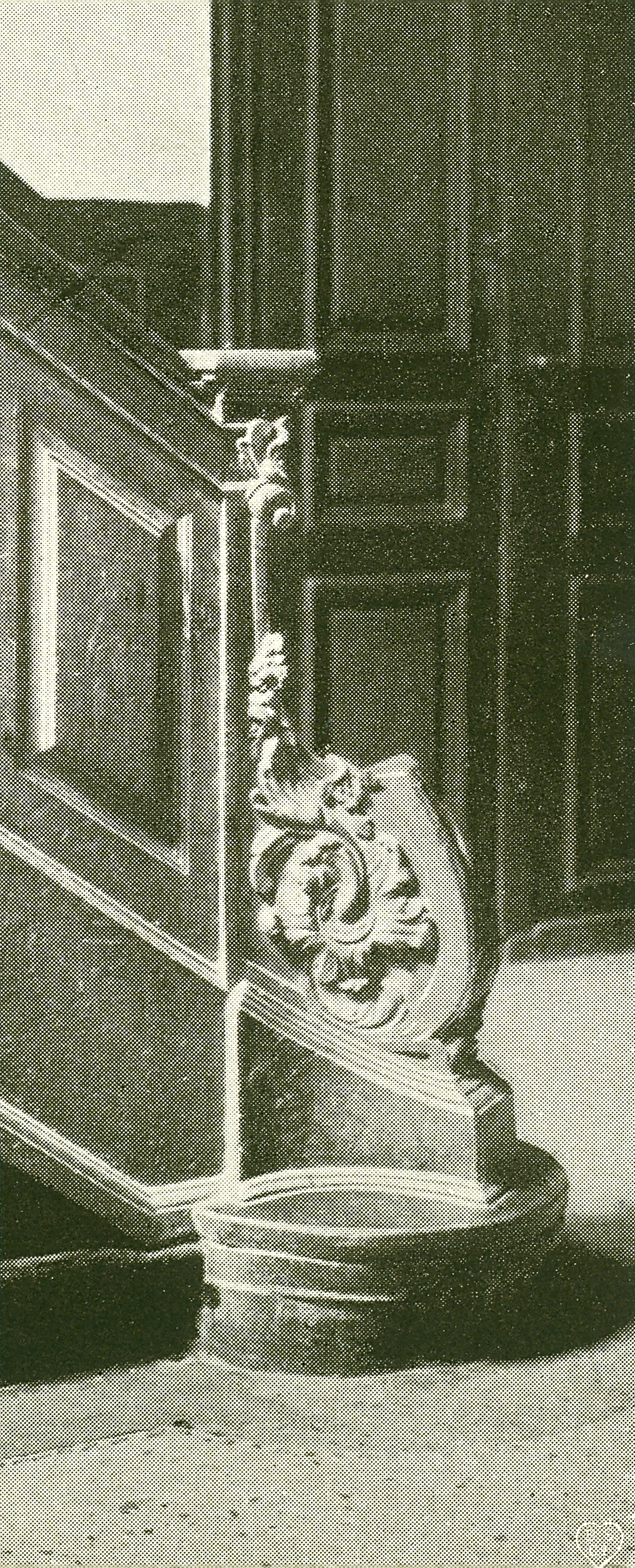 t